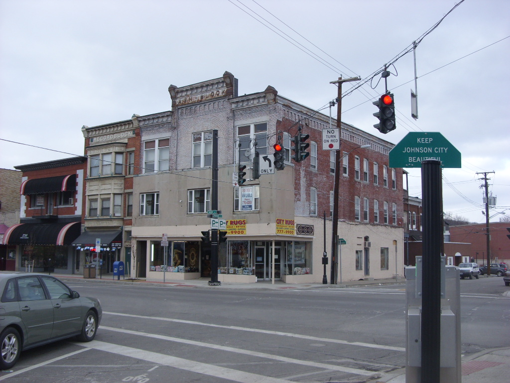 Downtown Johnson City